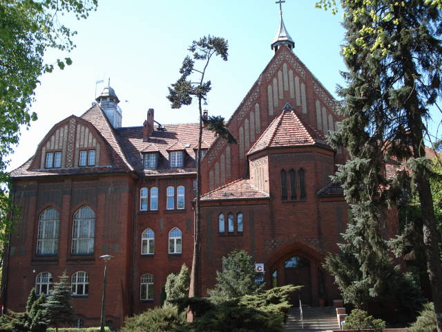 Heliodor Święcicki Clinial Hospital No. 2 of the Medical University in Poznań, formerly Diakonissenanstalt , 1909-1911, designed by Emil and Georg Zillmann, Charlottenburg.